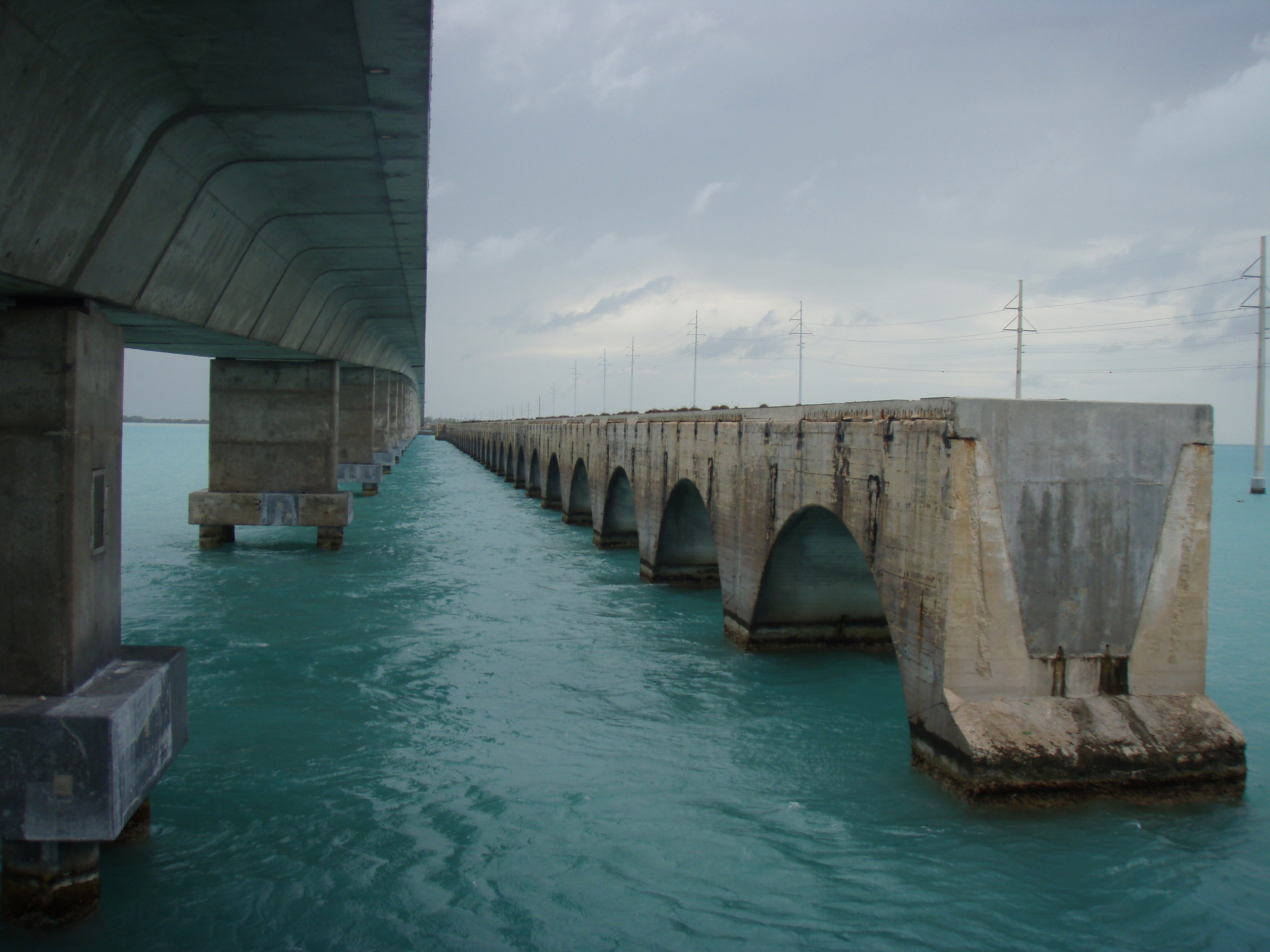 Two bridges on the Overseas Highway within the Florida Keys. The bridge on the left is the modern highway bridge, while the bridge on the right is the original bridge built by the Florida East Coast Railway, retrofitted to automobile traffic after 1935, and later closed.